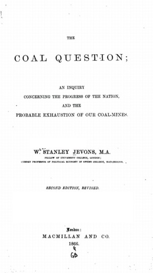 The cover of the second edition of The Coal Question; An Inquiry Concerning the Progress of the Nation, and the Probable Exhaustion of Our Coal Mines, by the economist William Stanley Jevons. First published in 1865, second edition published in 1866.